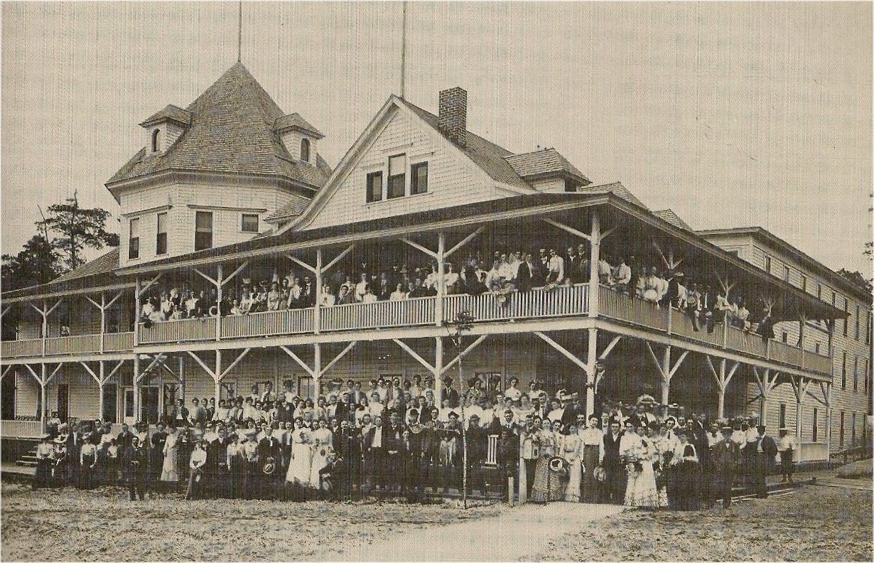 Epworth Heights Hotel at defunk resort near Ludington, Michigan